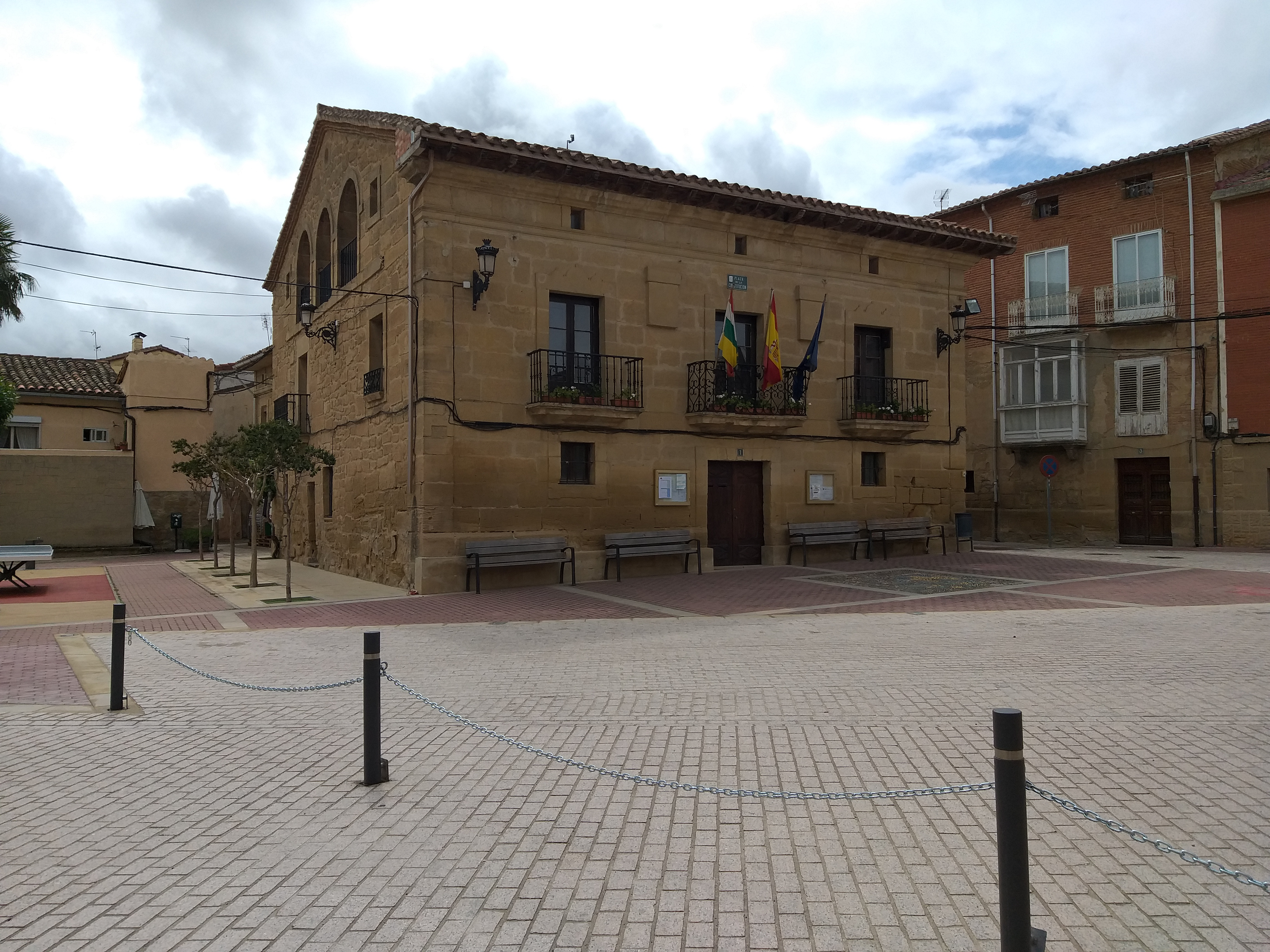 Rodezno's townhall